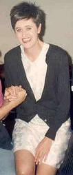 Crop of photo with Italian fan (fan cropped out).